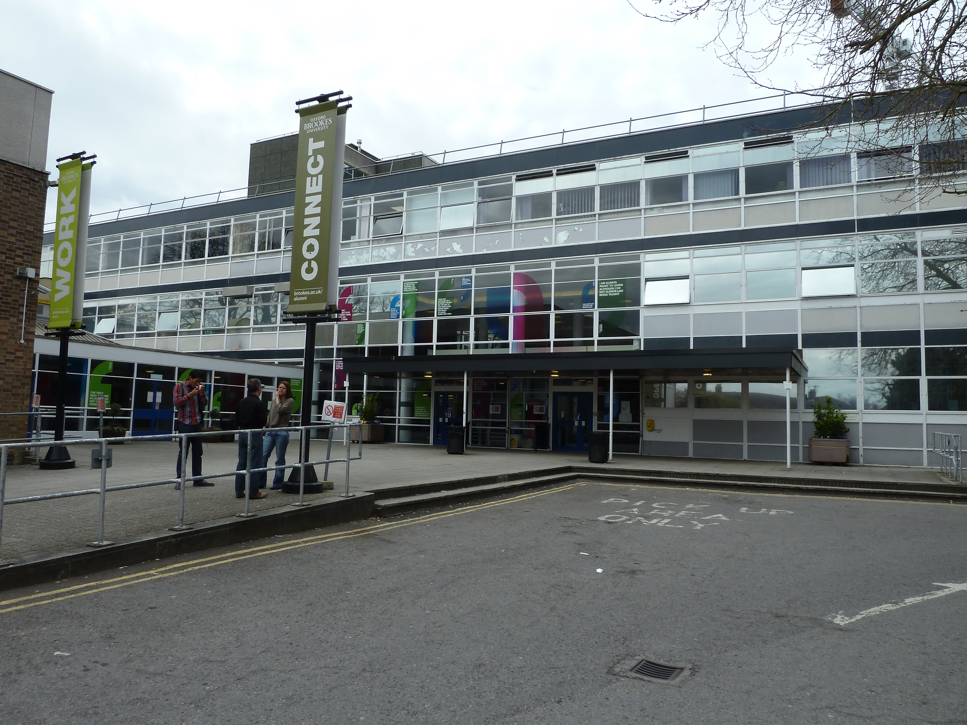 A photo of the reception at the Gipsy Lane campus of Oxford Brookes University in Headington.